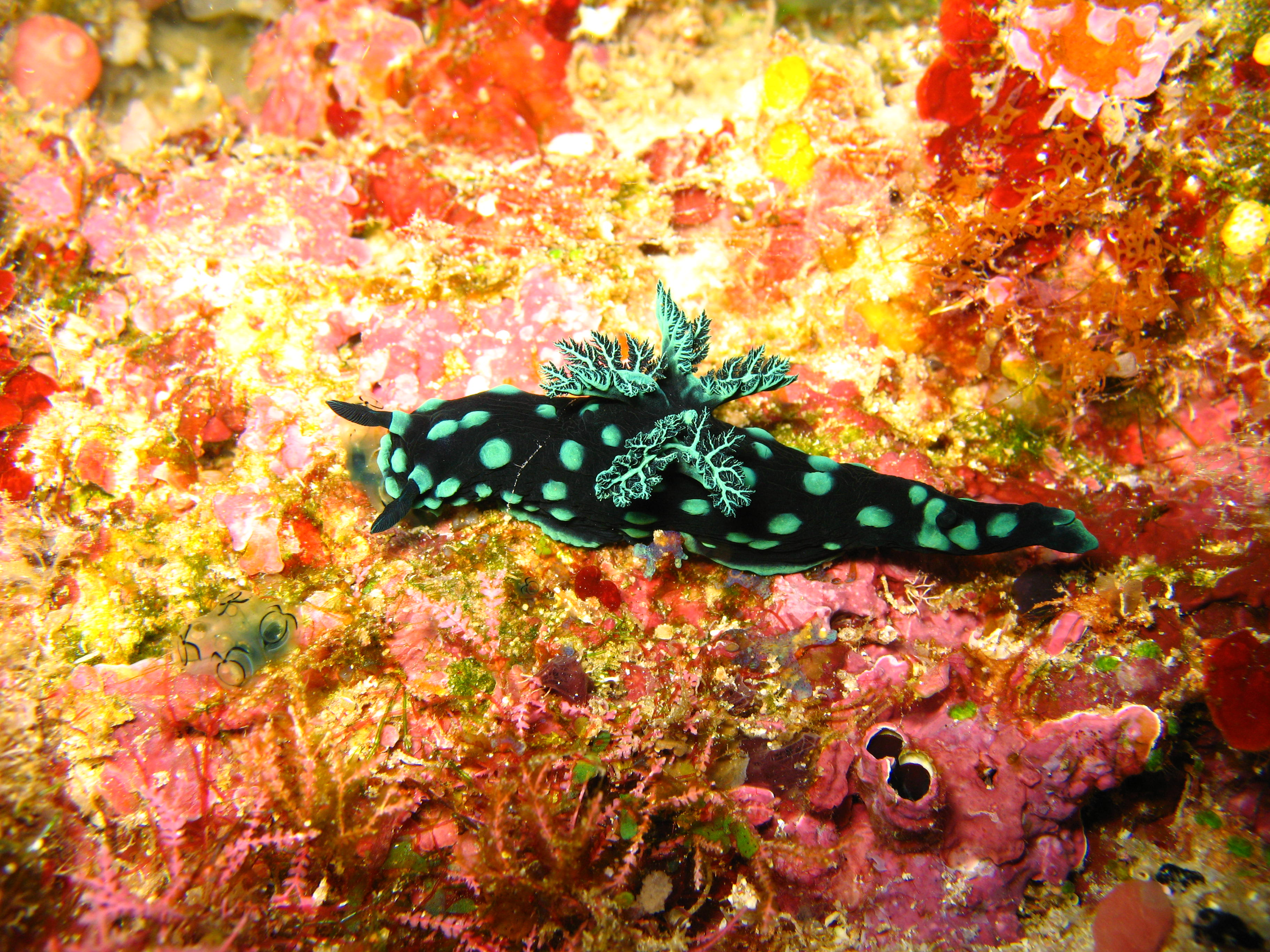 Nembrotha cristata, a species of colorful sea slug, pictured at Lekuan II dive site, Bunaken Marine National Park, North Sulawesi, Indonesia.